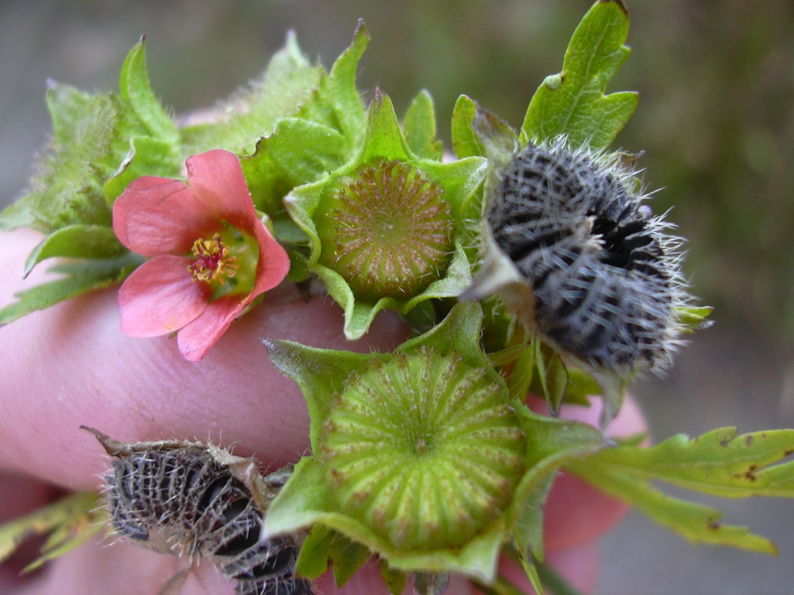 Modiola caroliniana (flowers and fruit). Location: Hawaii, Puu Kole